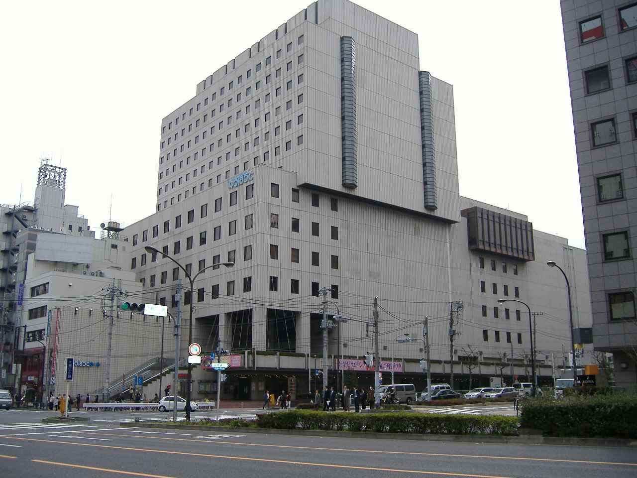 Hotel and Hall "U-port" (Tokyo, Japan)